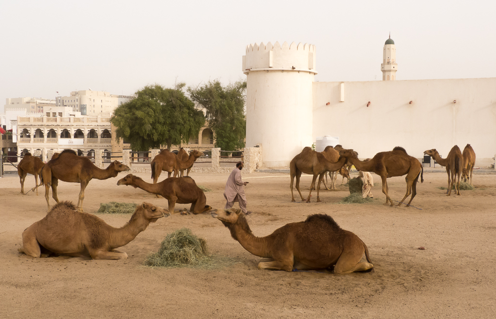 Feeding time at Al Koot Fort in Doha, Qatar.